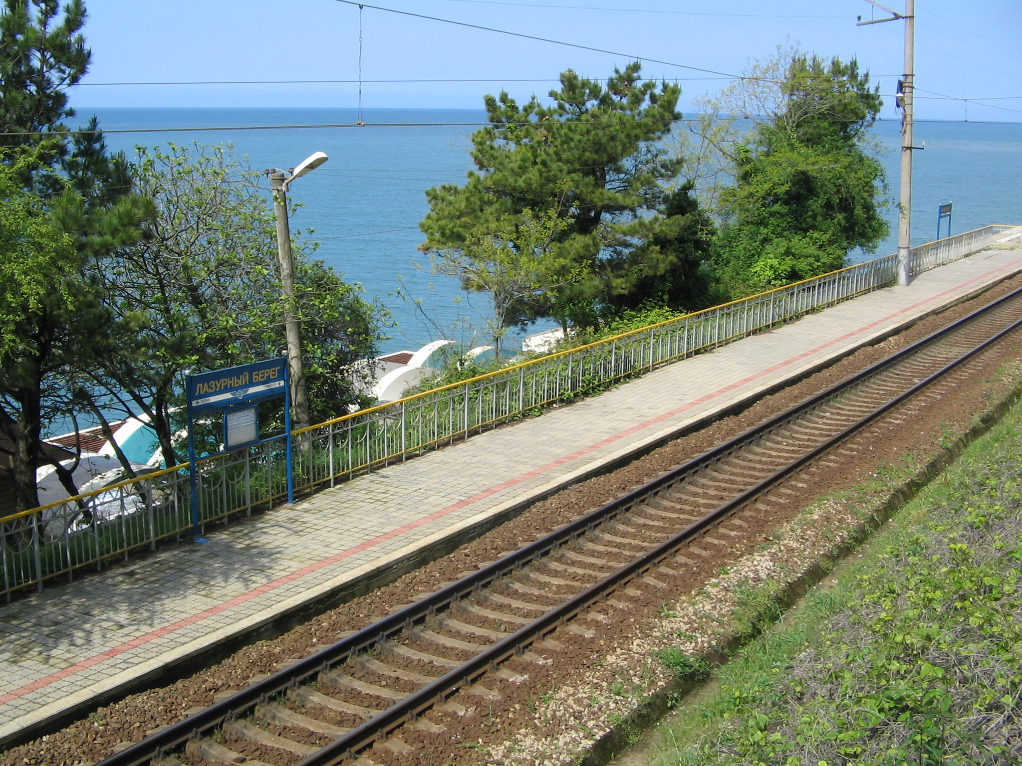 Lazurni Bereg platform in North Caucasus Railway.